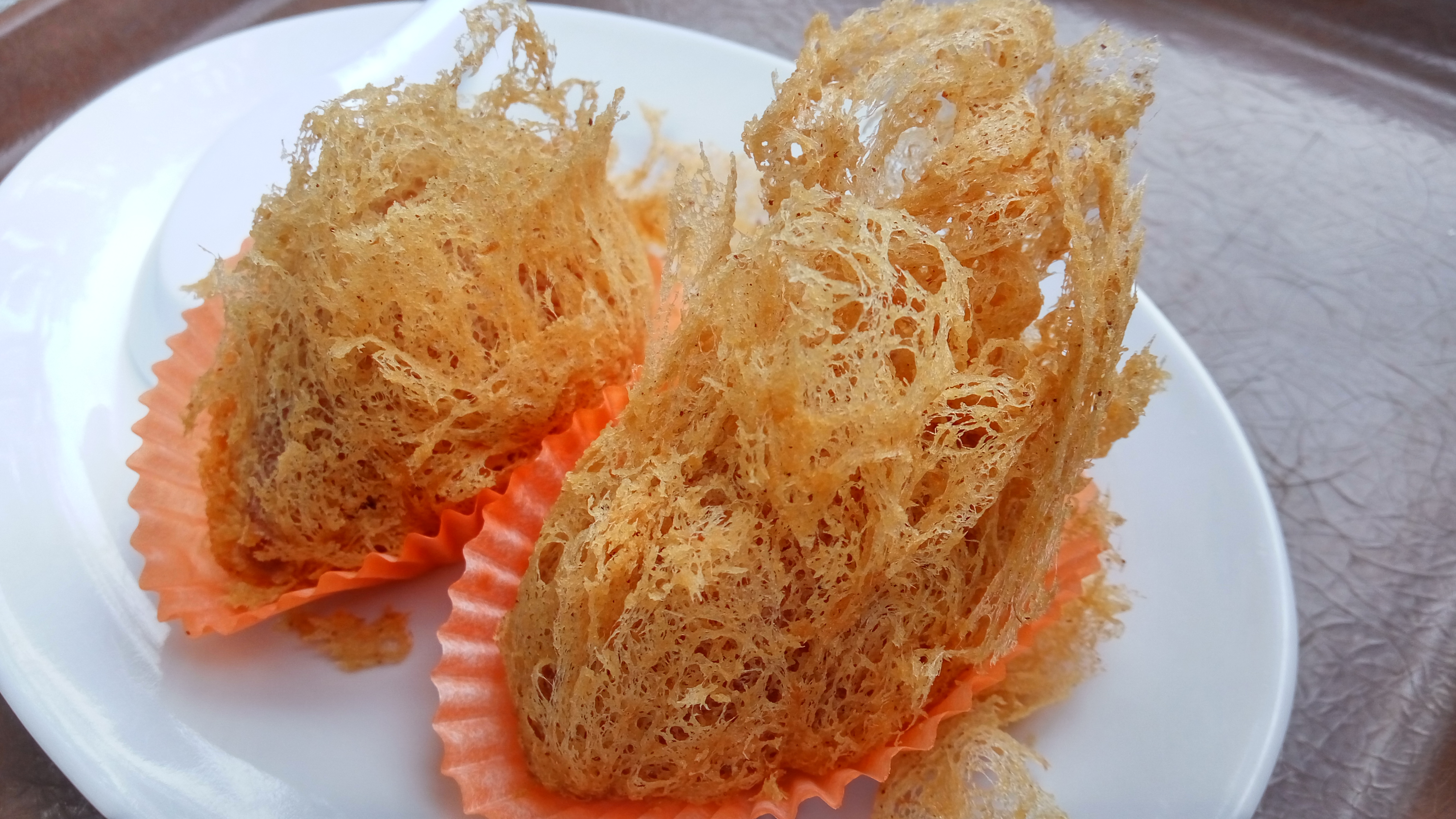 A pan-fried taro cake, a Cantonese dim sum delicacy that is semi-crunchy on the outside and warm and soft on the inside.